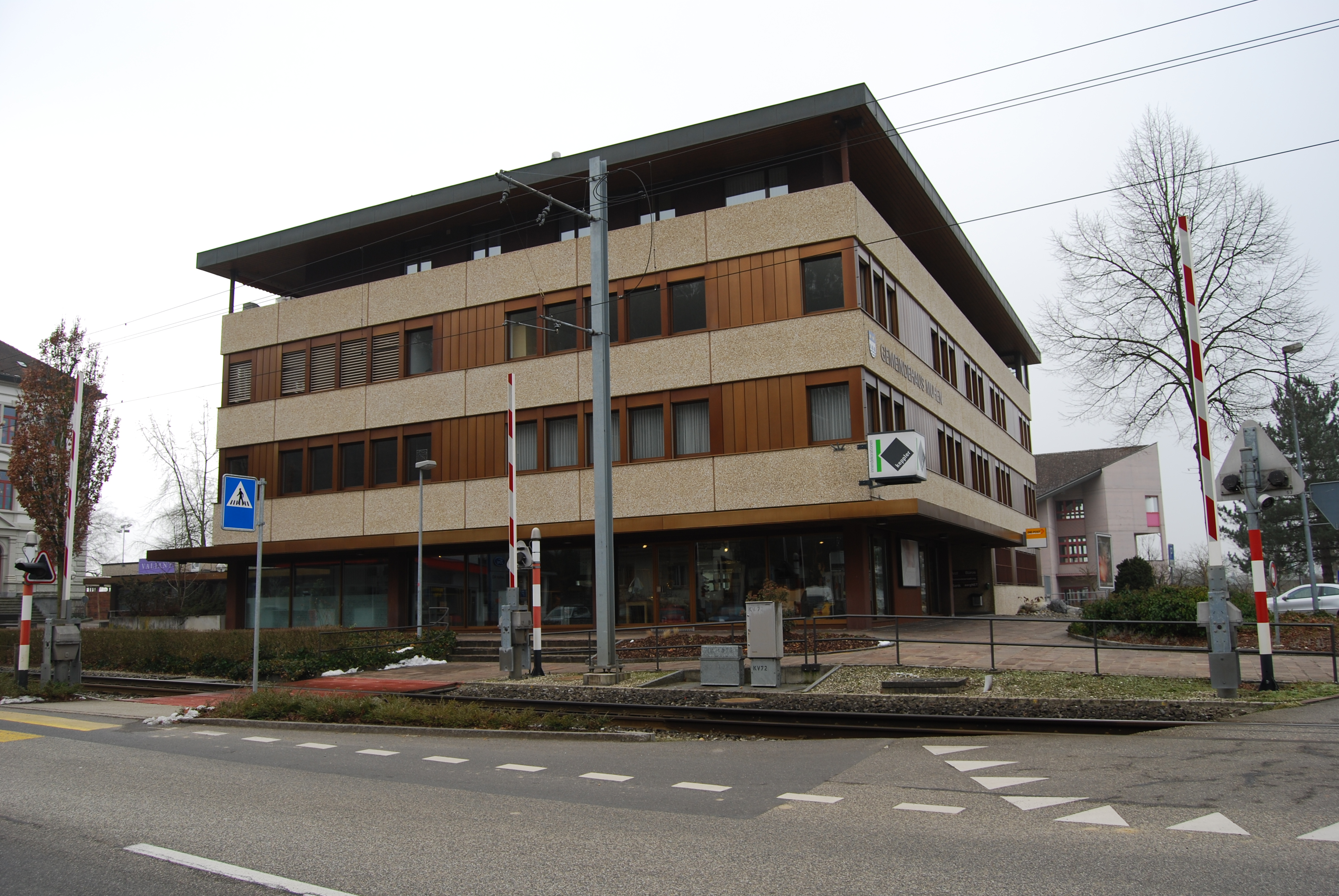 Municipal administration of Muhen, canton of Aargau, SwitzerlandEsperanto: Komunuma domo de Muhen, Kantono Argovio, Svislando